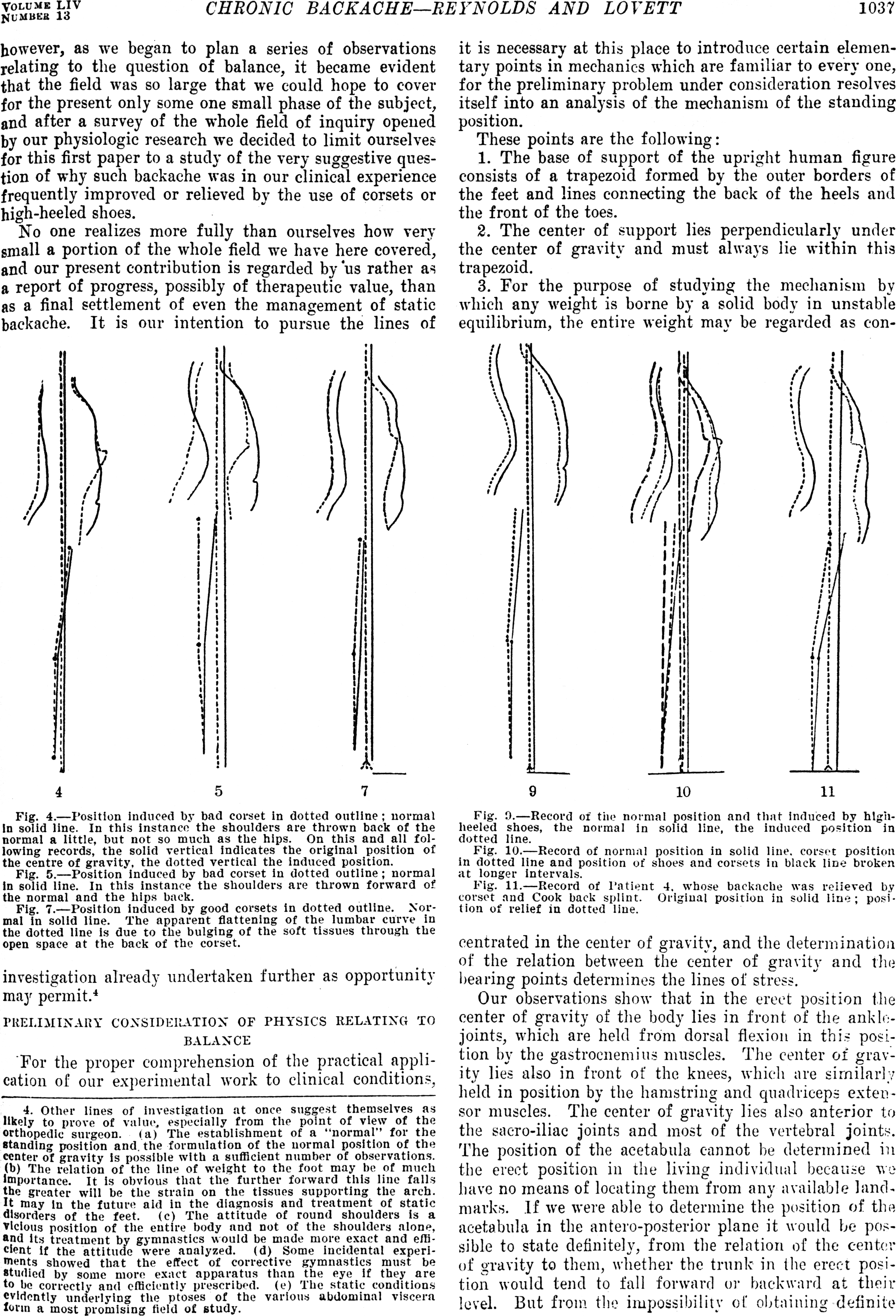 CHRONIC BACKACHE--REYNOLDS AND LOVETT